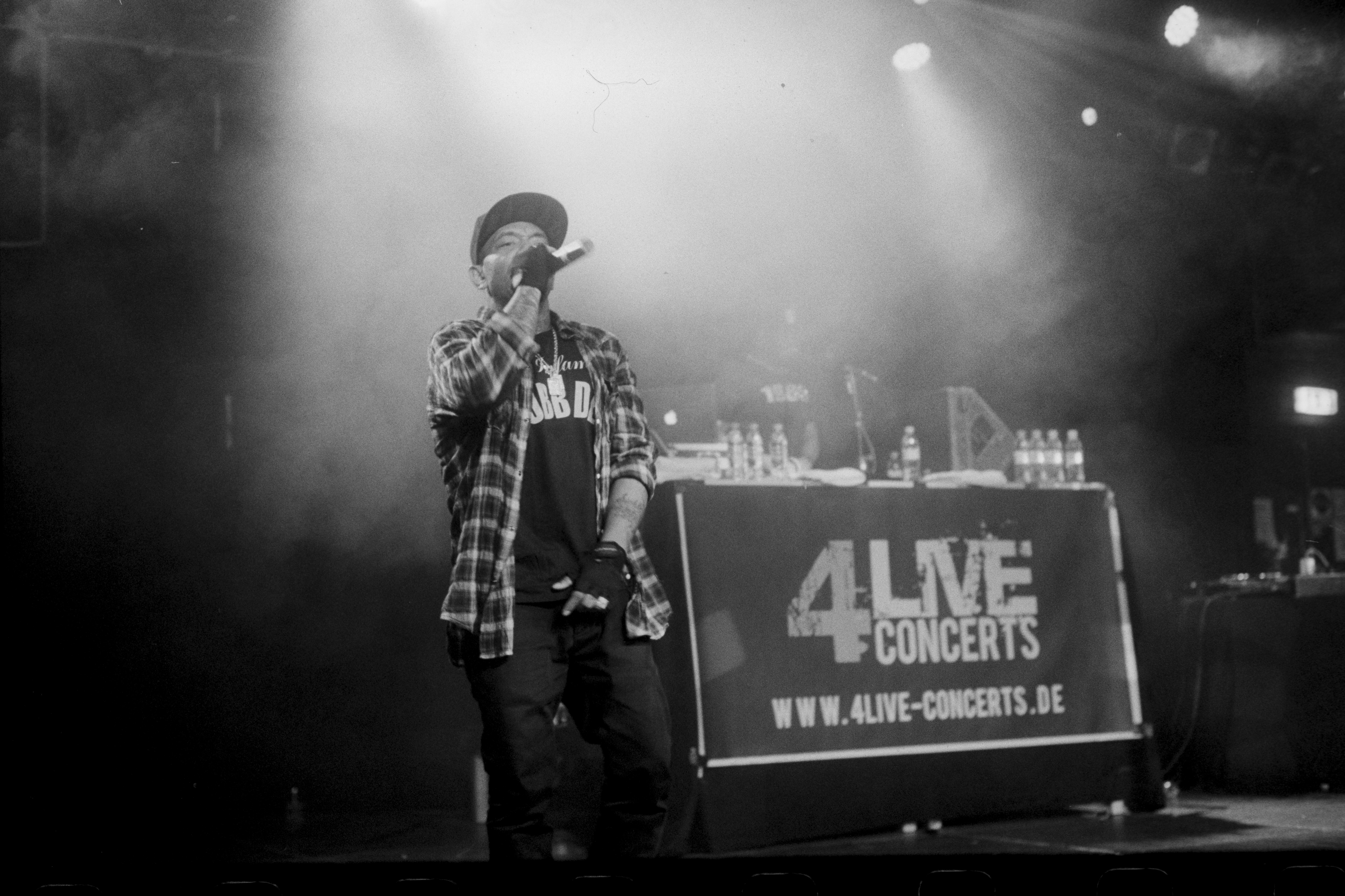 Prodigt